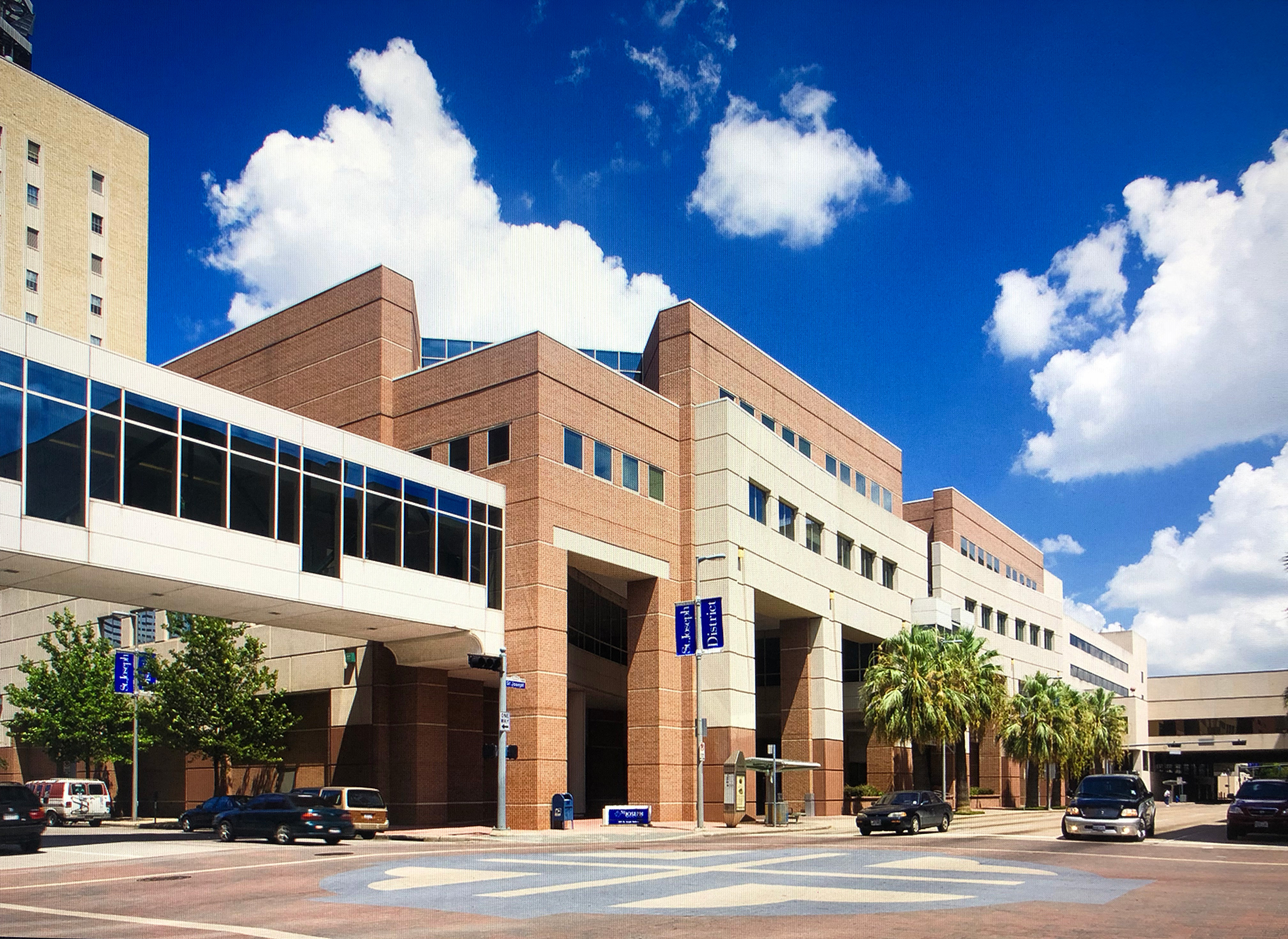 St Joseph Medical Center Located in Downtown Houston